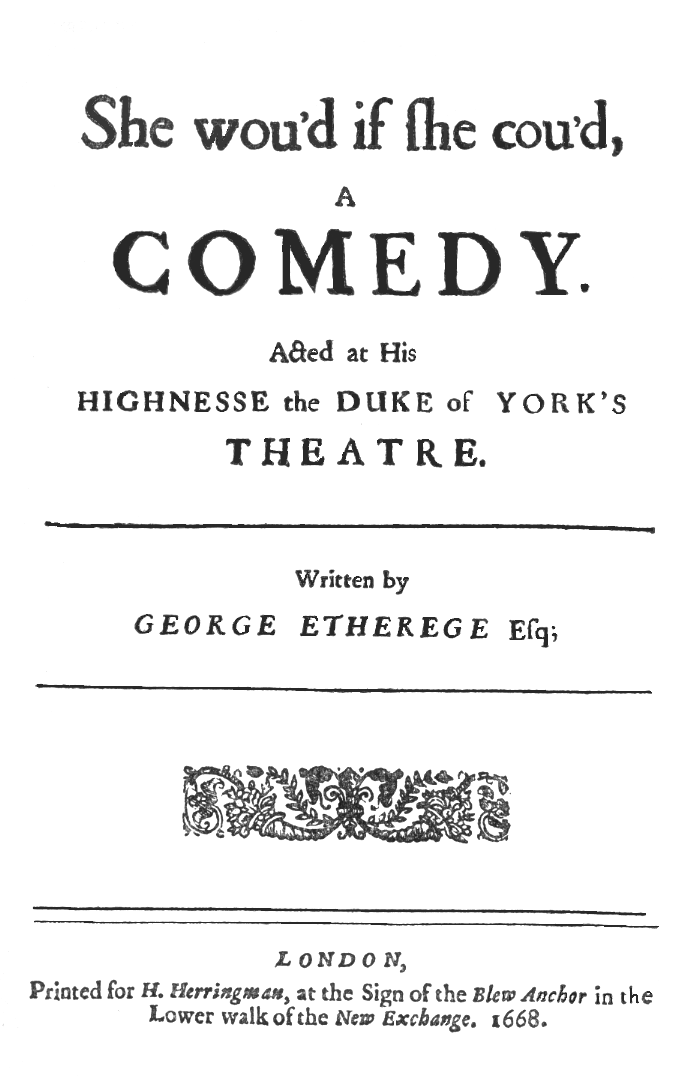 Frontispiece of the first edition of "She would if she could"